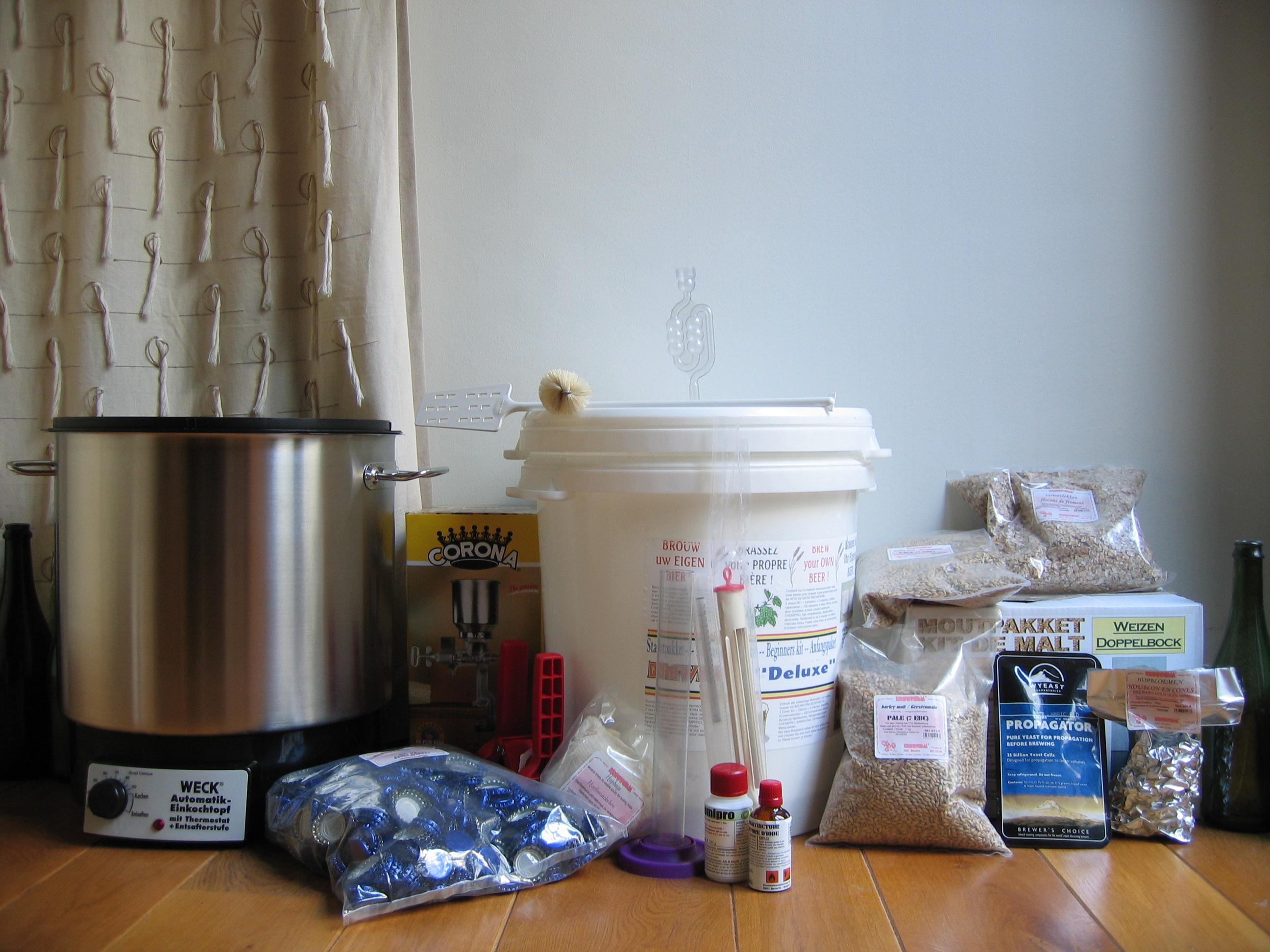 Homebrewing equipment